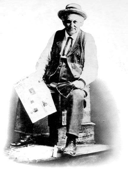 Cal Stewart, Circa 1900. Scan from original photograph.